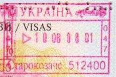 Passport entry stam from Starokozache, Ukraine-Moldova border